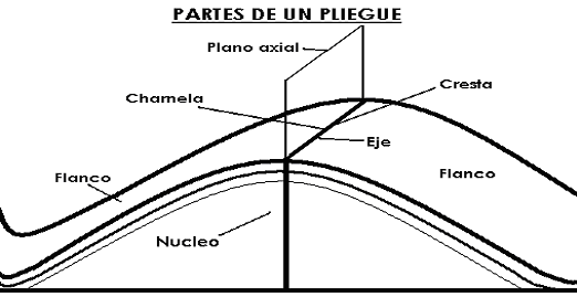 Elements of a fold(anticline)